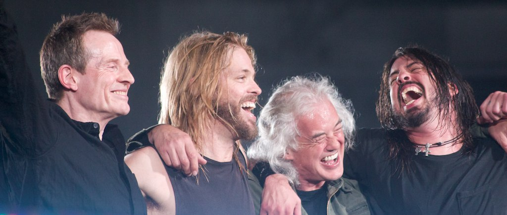 John Paul Jones and Jimmy Page of Led Zeppelin onstage with Taylor Hawkins and Dave Grohl at a Foo Fighters performance in 2008